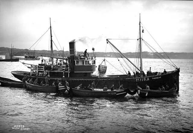 Norwegian fishing vessel with dories alongside. The name and fishing registry number visible here.